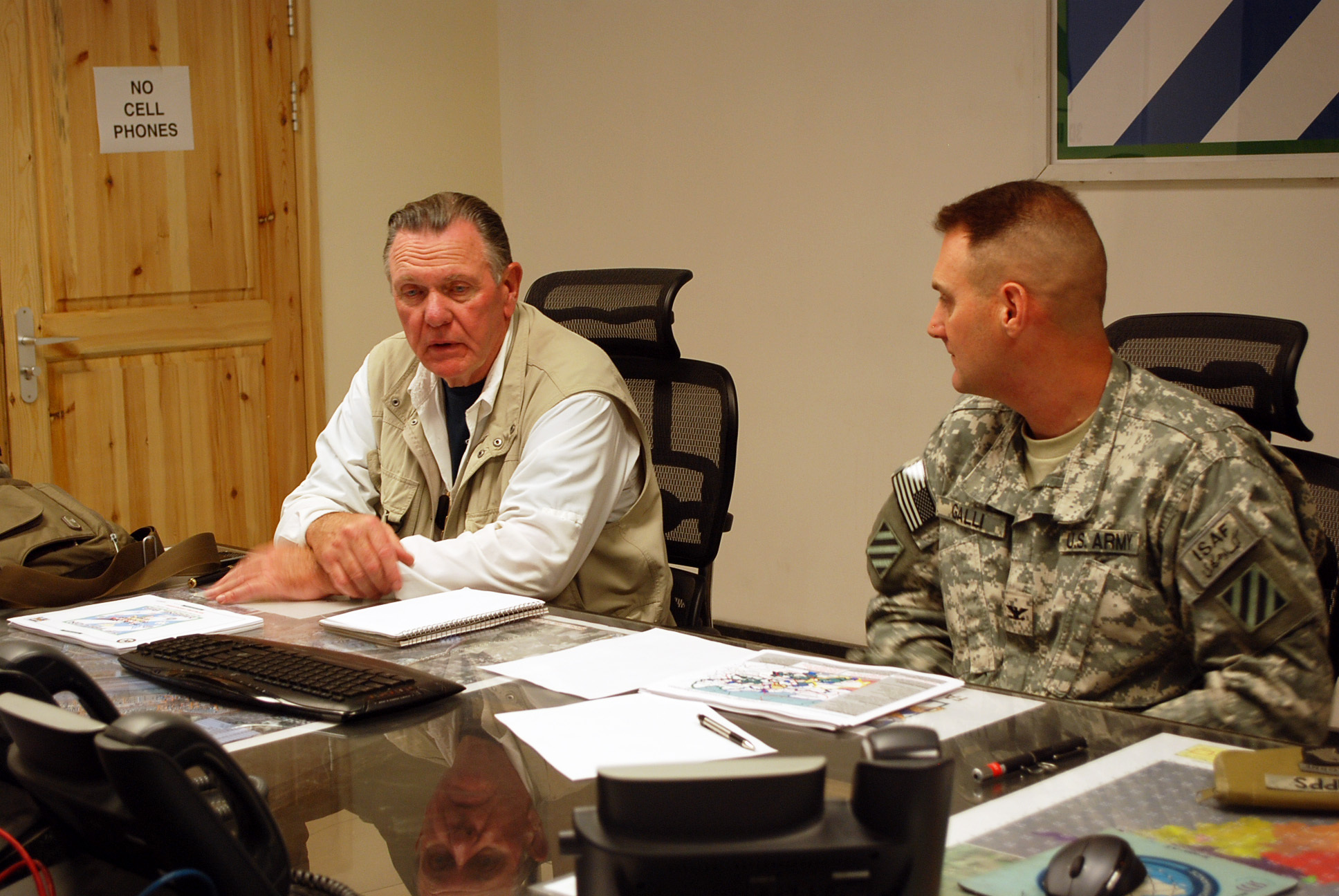 Retired U.S. Army Gen. Jack Keane (left), former Army vice chief of staff, meets with U.S. Army Col. Don Galli, commander of the 3rd Combat Aviation Brigade, Task Force Falcon, Sept. 3, at Bagram Airfield, Afghanistan. The meeting was held at the TF Falcon headquarters building. (Photo by Sgt. Monica K. Smith, 3rd Combat Aviation Brigade, Task Force Falcon)